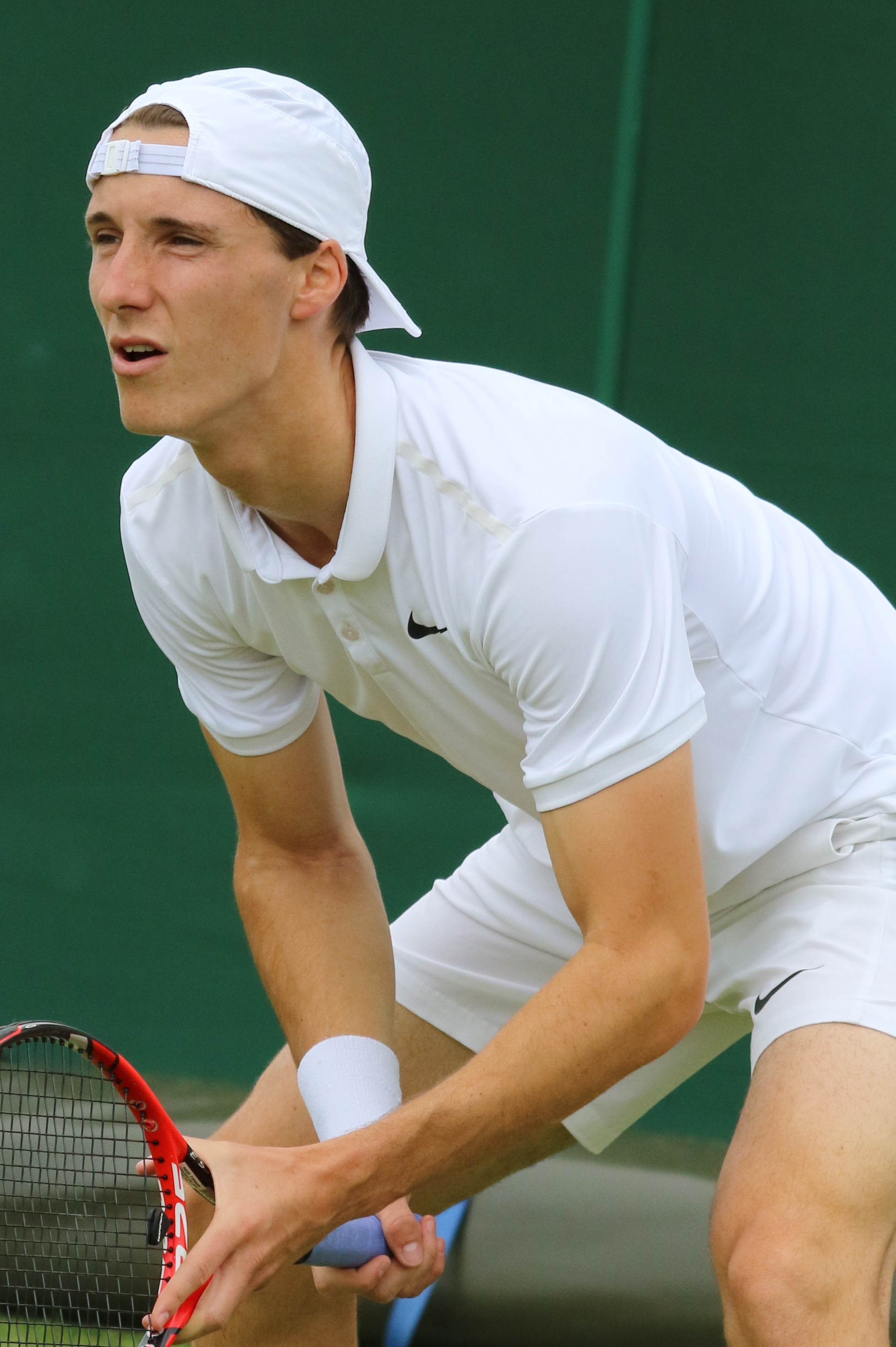 Salisbury WMQ16 (4)